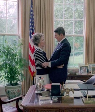 President and Mrs. Reagan talk in the Oval Office.